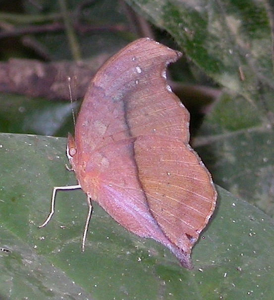 Precis pelarga (underside), Ahozon forest, southern Benin, 22 Jan 2012